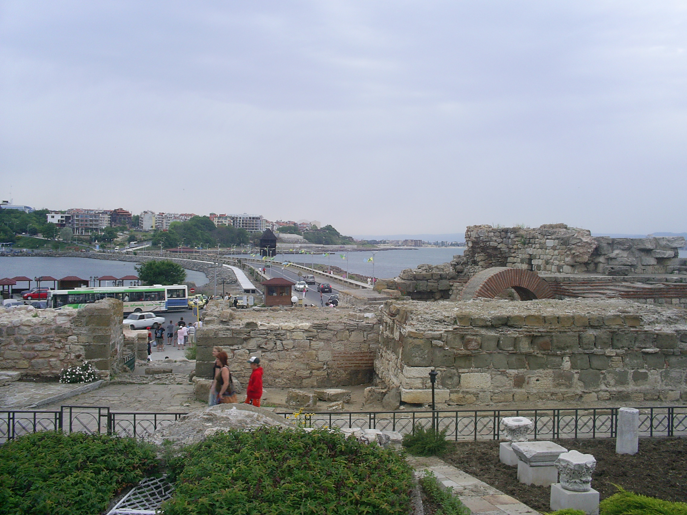 The fortress walls. View towards the new part of Nessebur